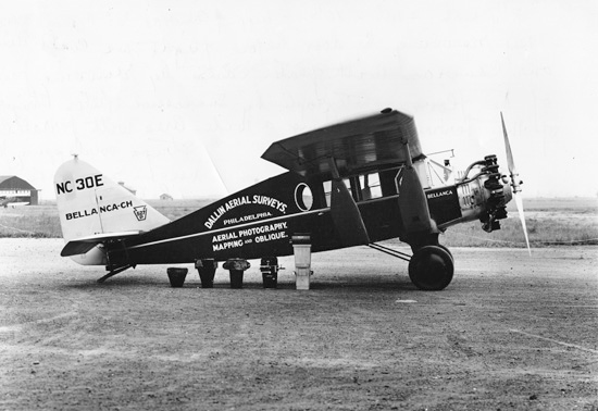 Bellanca CH-200 of Dallin Aerial Surveys